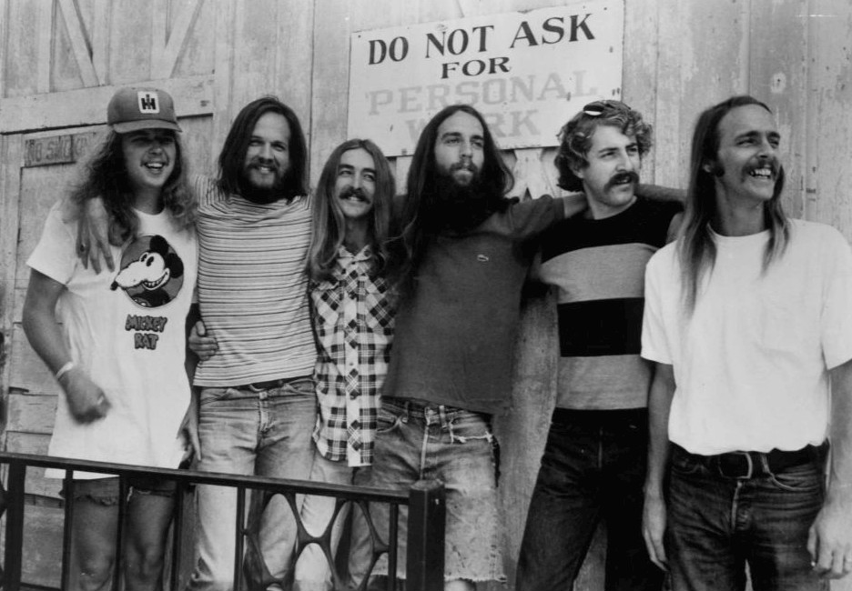 Publicity photo of the musical group Ozark Mountain Daredevils. From left: Buddy Brayfield, John Dillon, Larry Lee, Mike "Supe" Granda, Randle Chowning, Steve Cash.